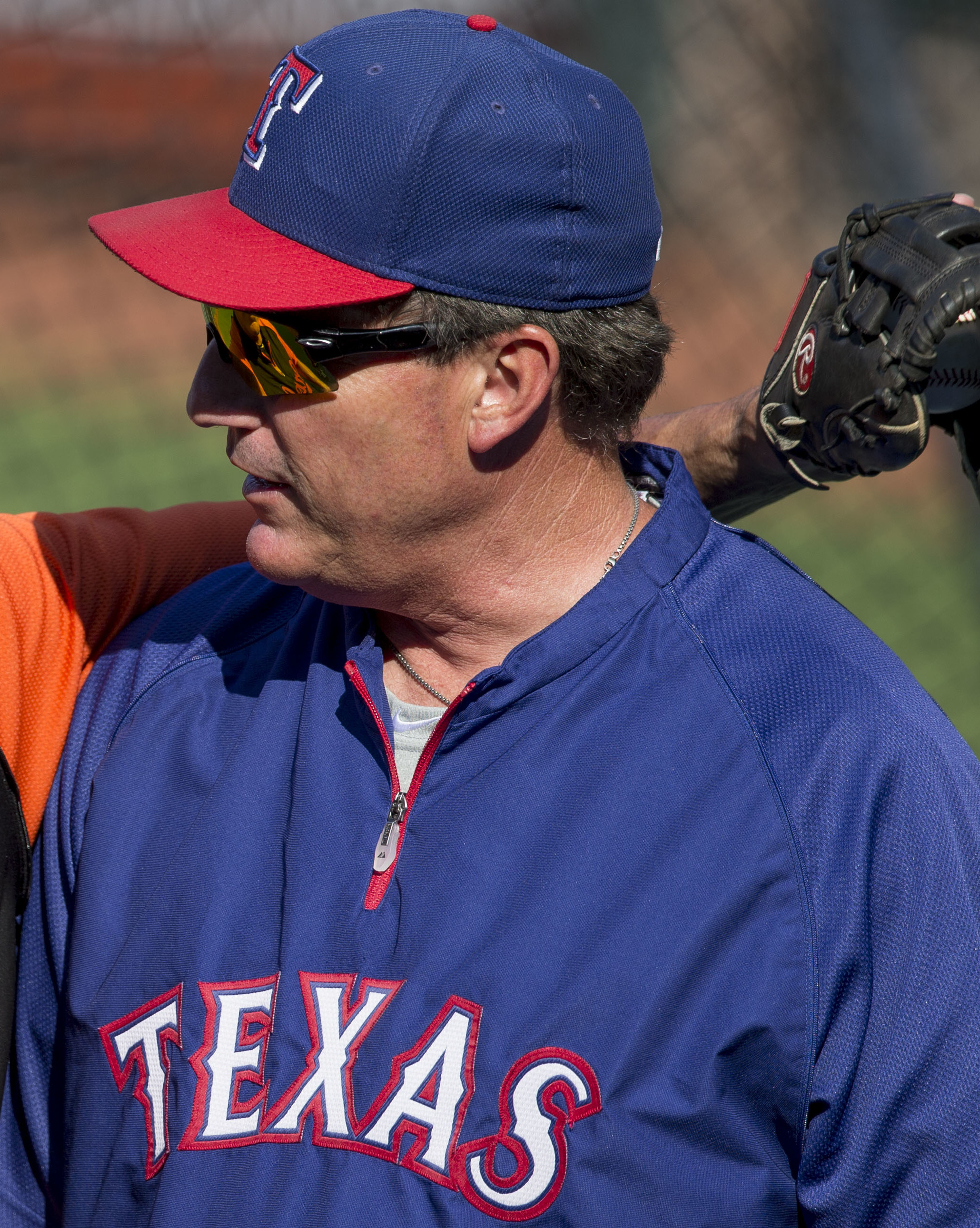 A Baltimore Orioles coach and Texas Rangers coach at Camden Yards during batting practice before a 2014 game